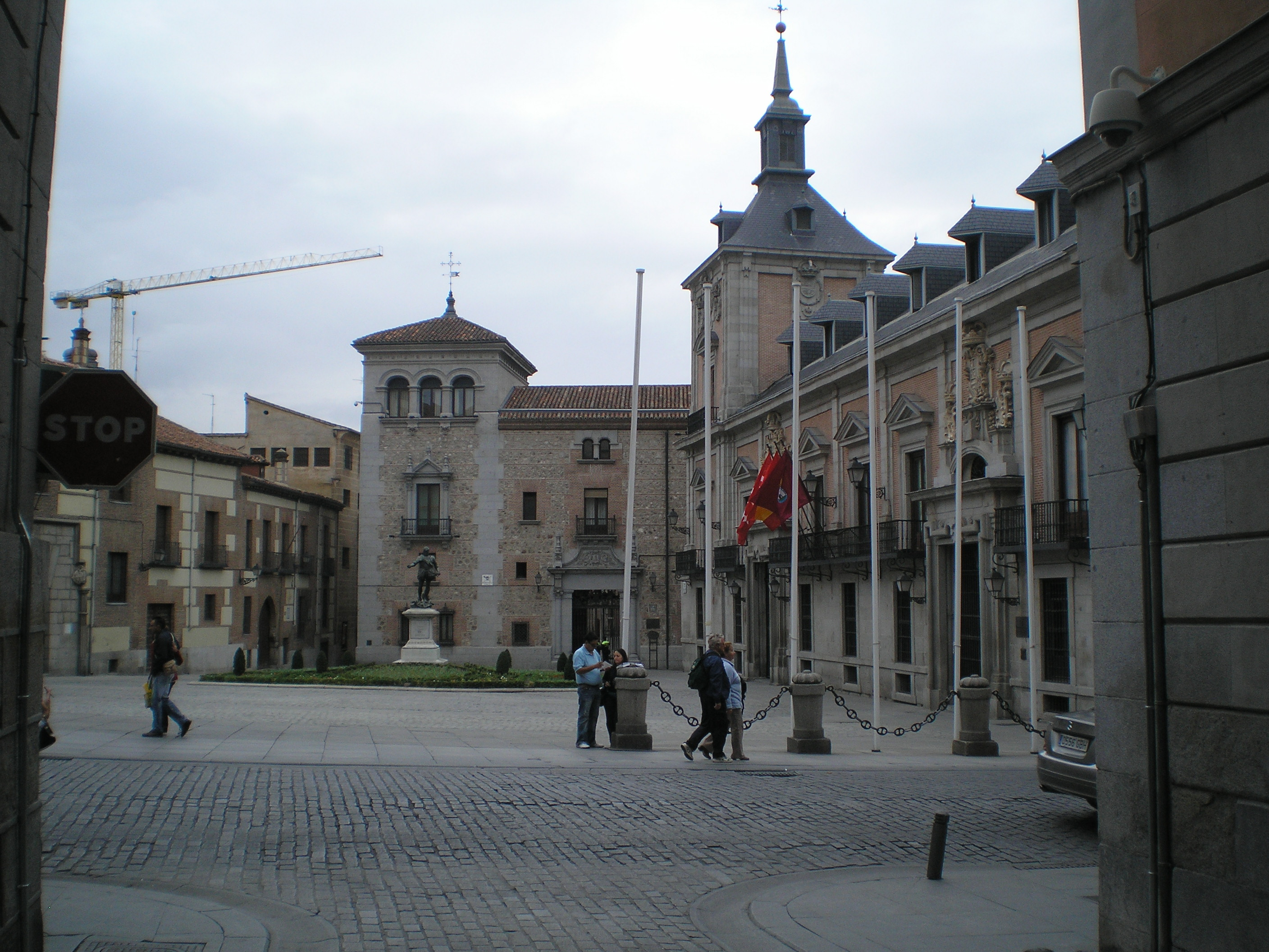 Plaza de la Villa, Madrid.